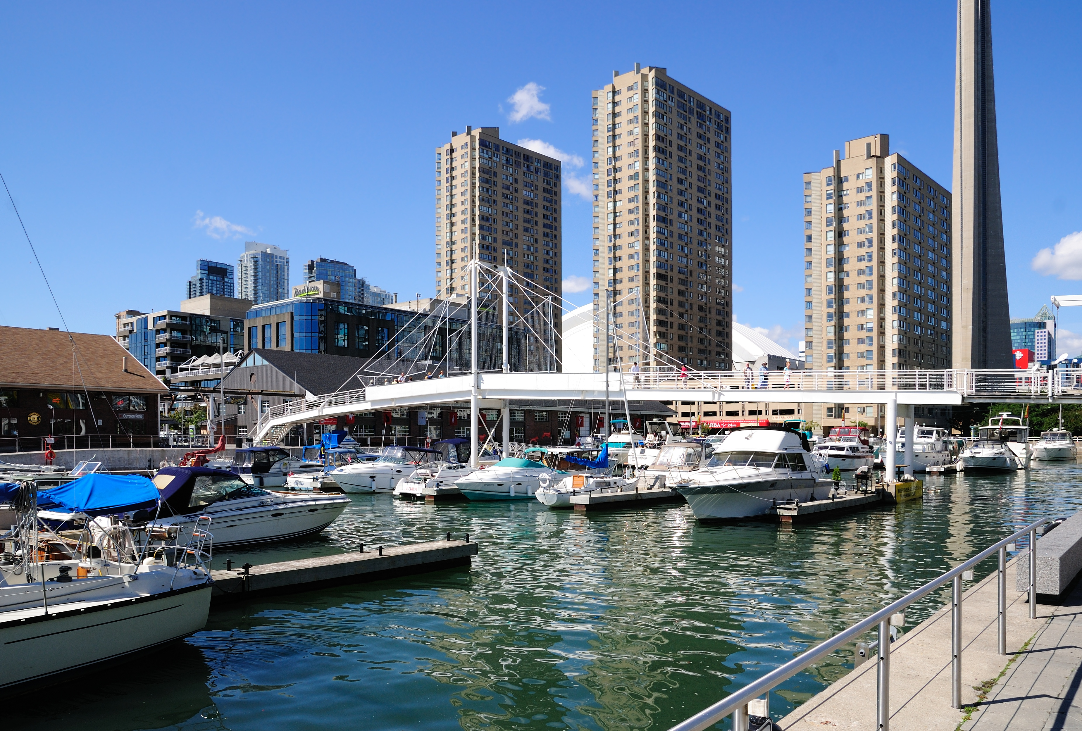 Toronto Harbourfront: marina and Amsterdam Bridge